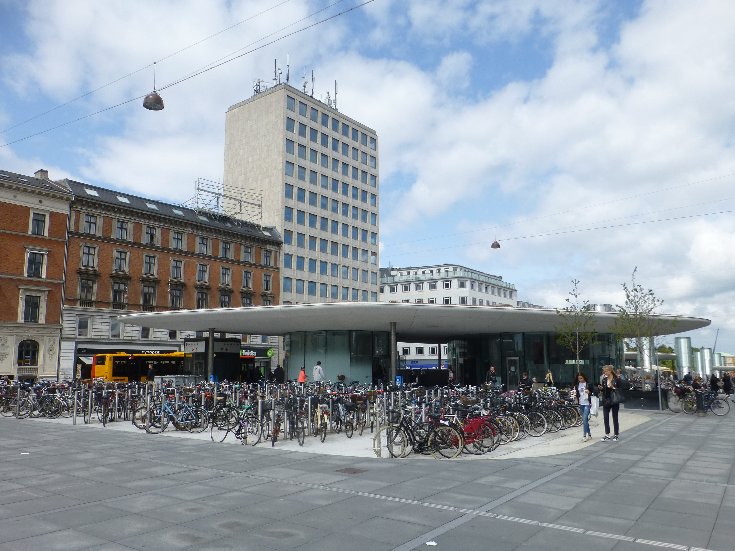 Nørreport Station in Indre By in Copenhagen.